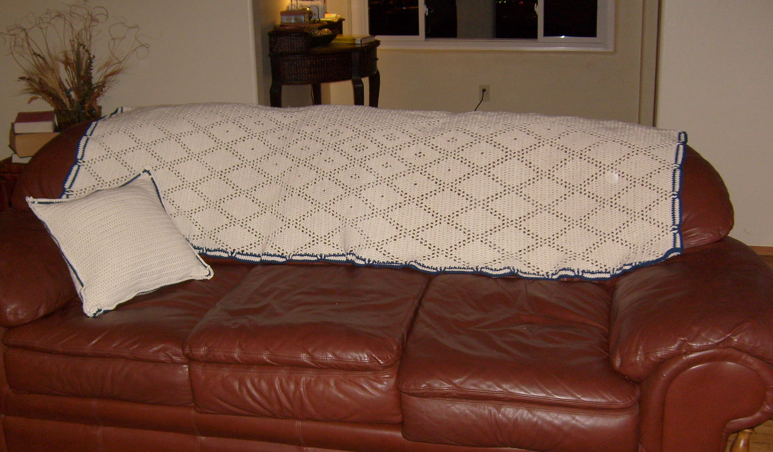 Filet crochet sofa blanket, with matching pillow. Cotton yarn in ecru and blue, worked on a 4 mm hook. Original design.